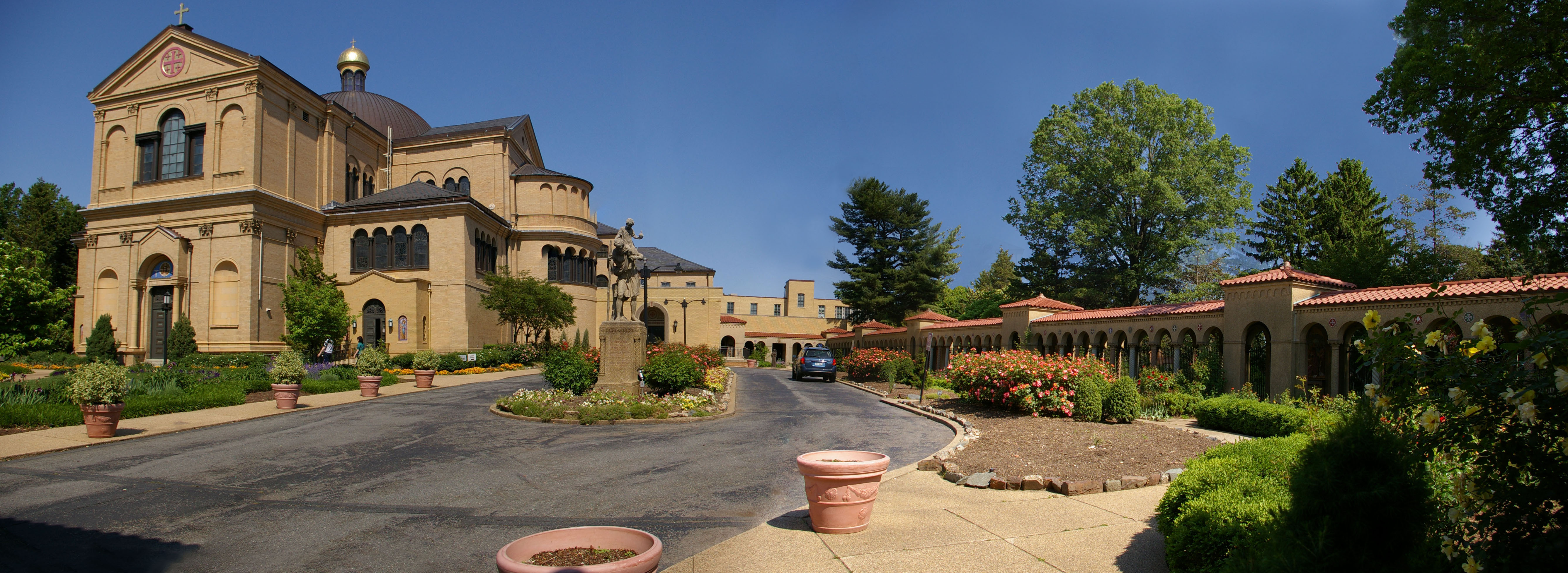 A National Historic Monument, the Church and Monastery at Mount St. Sepulchre are located in Washington, DC. The Memorial Church of the Holy Sepulchre was designed by the Roman architect Aristide Leonori, and built between 1898–1899. The floor plan of the church is the five-fold Crusader Cross of Jerusalem, and it is built in the Byzantine style after Hagia Sophia in Constantinople, with some modified Romanesque influences. Surrounding the church is the Rosary Portico, with fifteen chapels commemorating the lives of Jesus and Mary. In order to make Christian holy sites from around the world accessible to those who do not have the means to travel, the Franciscan Monks at Mount St. Sepulchre created artful replicas which grace the grounds of their Monastery. Thus, the site is called a Commissariat of the Holy Land. This photograph is a Panoramic Photomerge of Mount St. Sepulchre Franciscan Monastery in Washington, DC.